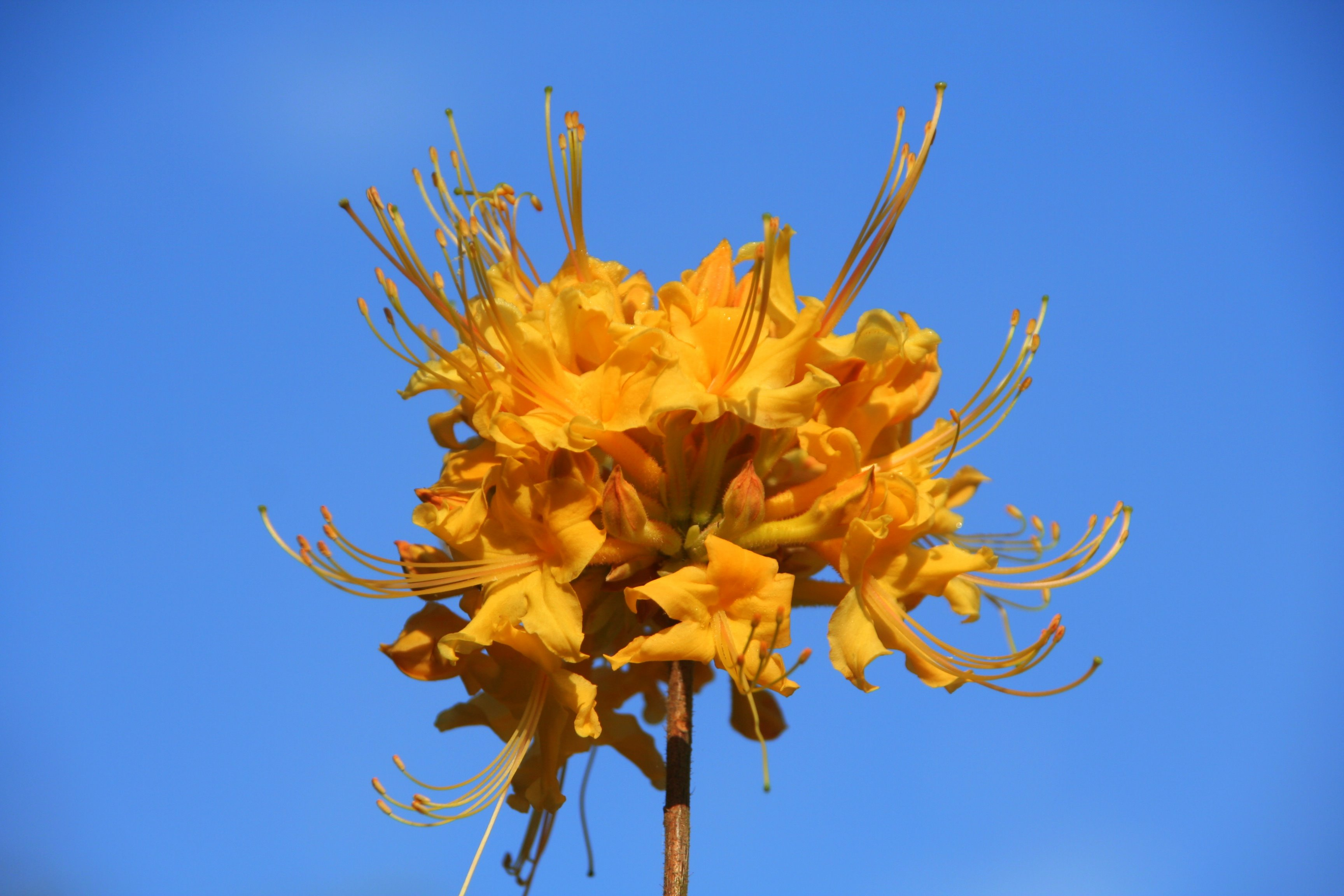 Rhododendron austrinum at State Botanical Garden of Georgia